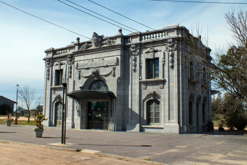 Depertamental Museum of Flores, in Trinidad, Uruguay. It is housed in the old railroad station of the city.